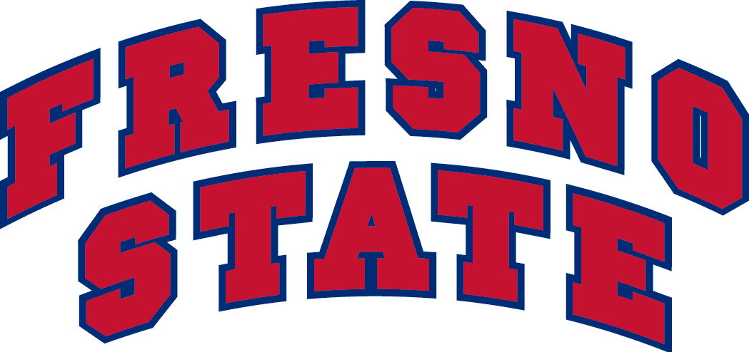 Athletic wordmark for athletics at Fresno State Univesrity.